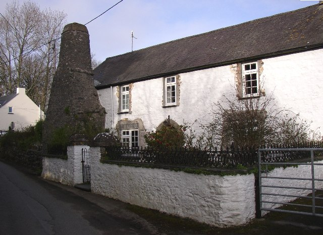 Cottage with 'Flemish' chimney, St Florence. These massive chimneys are a feature of this part of the county. They often incorporate ovens, and sometimes the cottage has disappeared, leaving just the chimney.